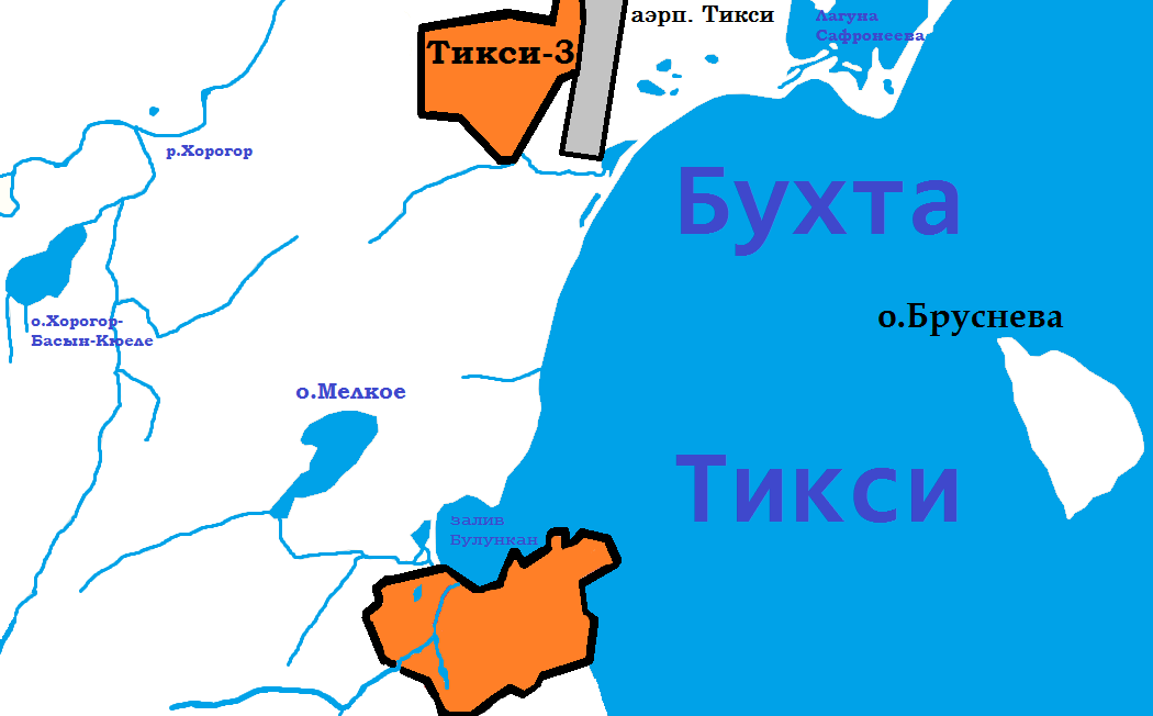 Map of Tiksi (Russia)